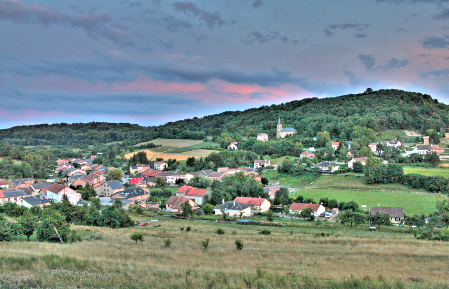 Montenach (by night).